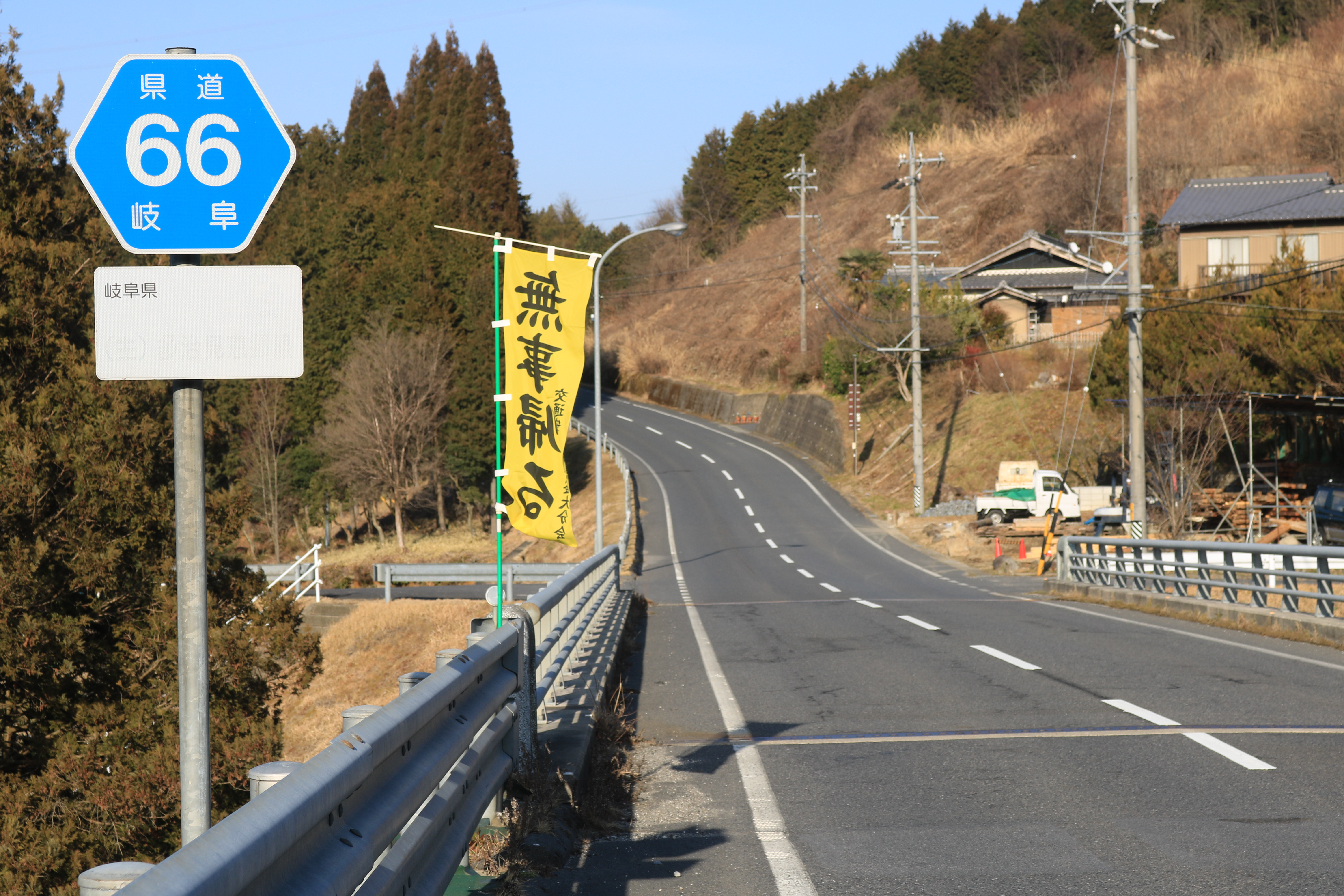 Gifu Prefectural Road Route 66 (Tajimi-Ena Line) in Kamadochō, Mizunami, Gifu Prefecture, Japan.